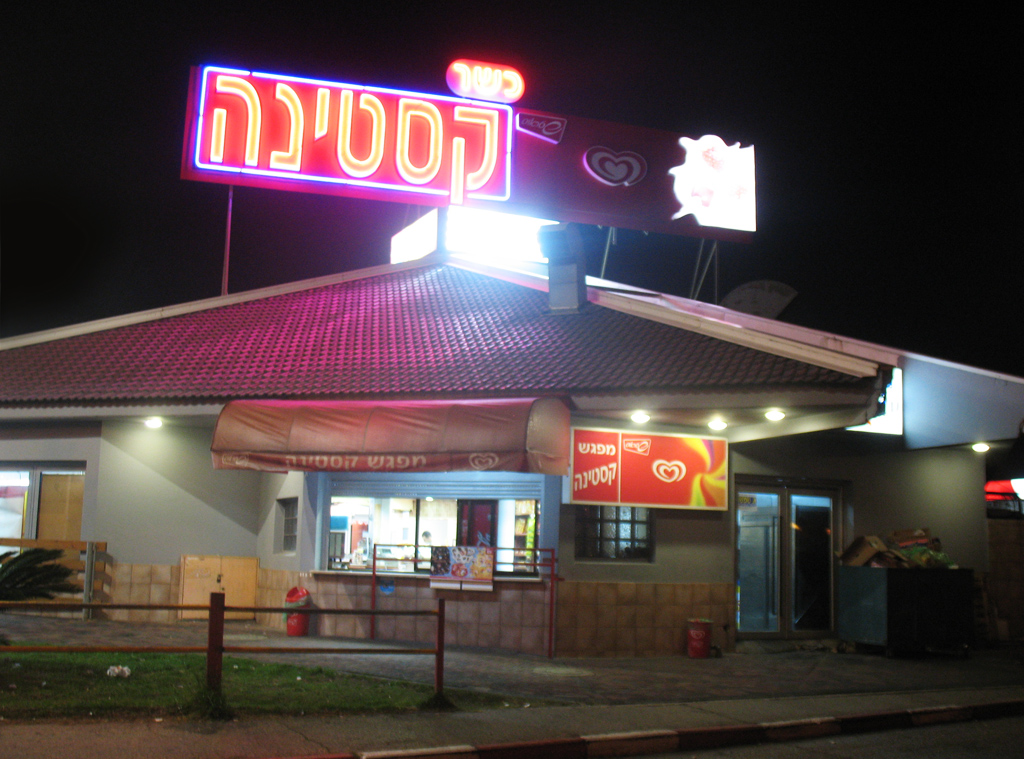 Restaurant complex at the Mal'akhi Junction (Qastina) in Israel.